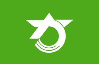 Flag of Kami Miyagi